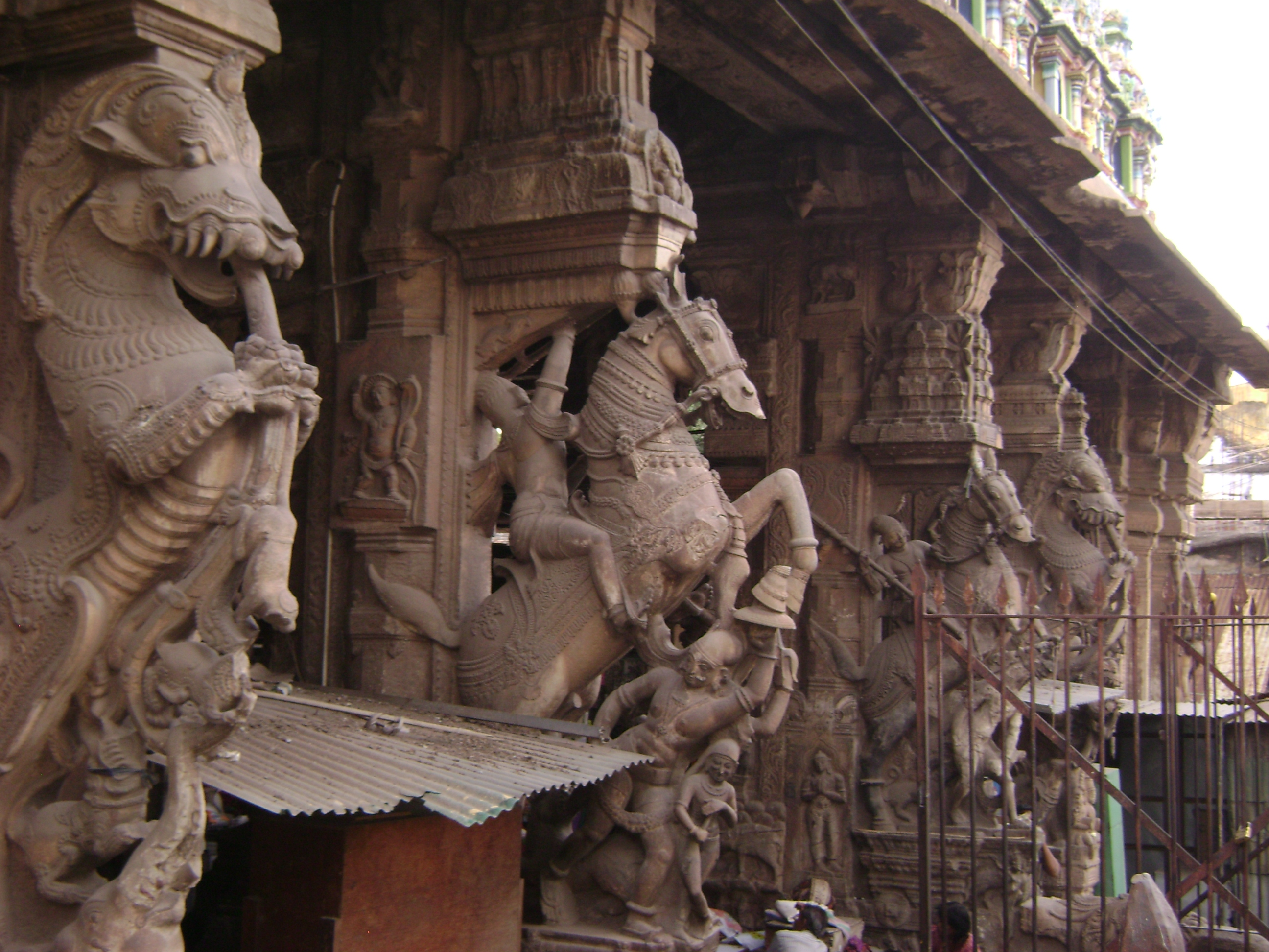 Sculptures in New Mandap, Opposite of Meenakshi Temple, Madurai, Tamilnadu, India